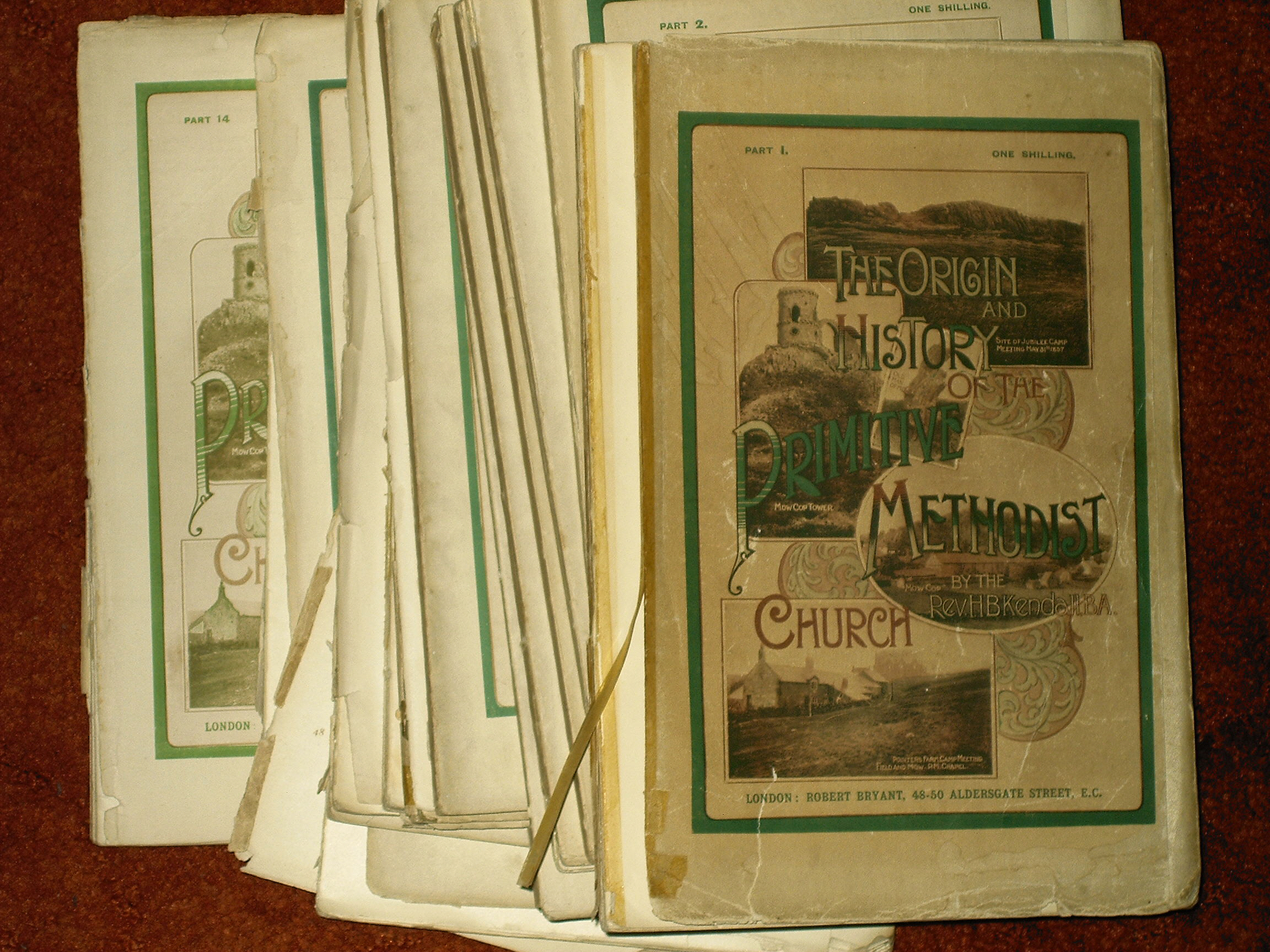 Origin and History of the Primitive Methodist Church paperback in 14 volumes, first printing 1906